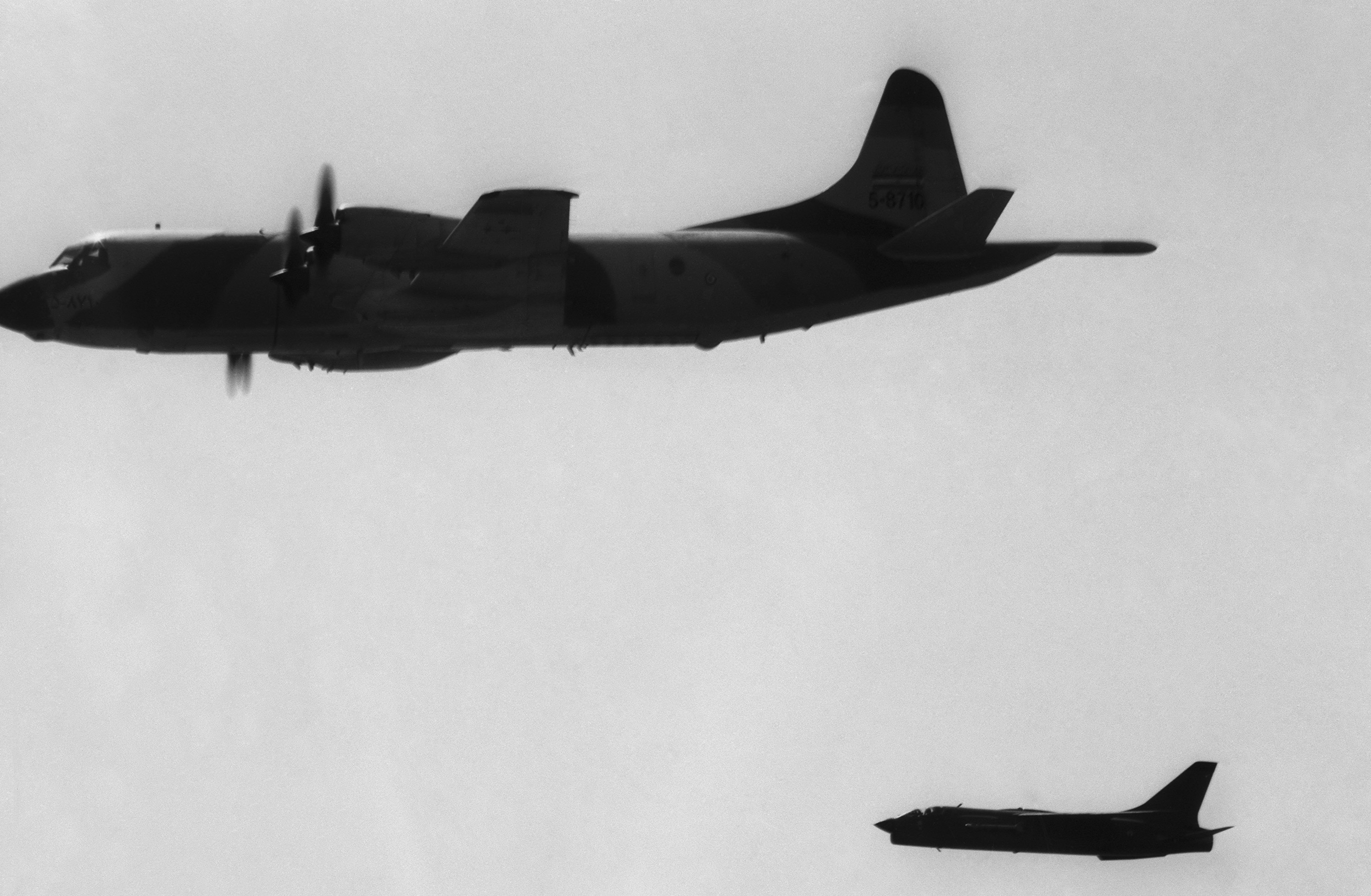 A French Vought F-8E(FN) Crusader intercepting an I.R.I.Navy Lockheed P-3F Orion aircraft in Persian Gulf 1987-88.